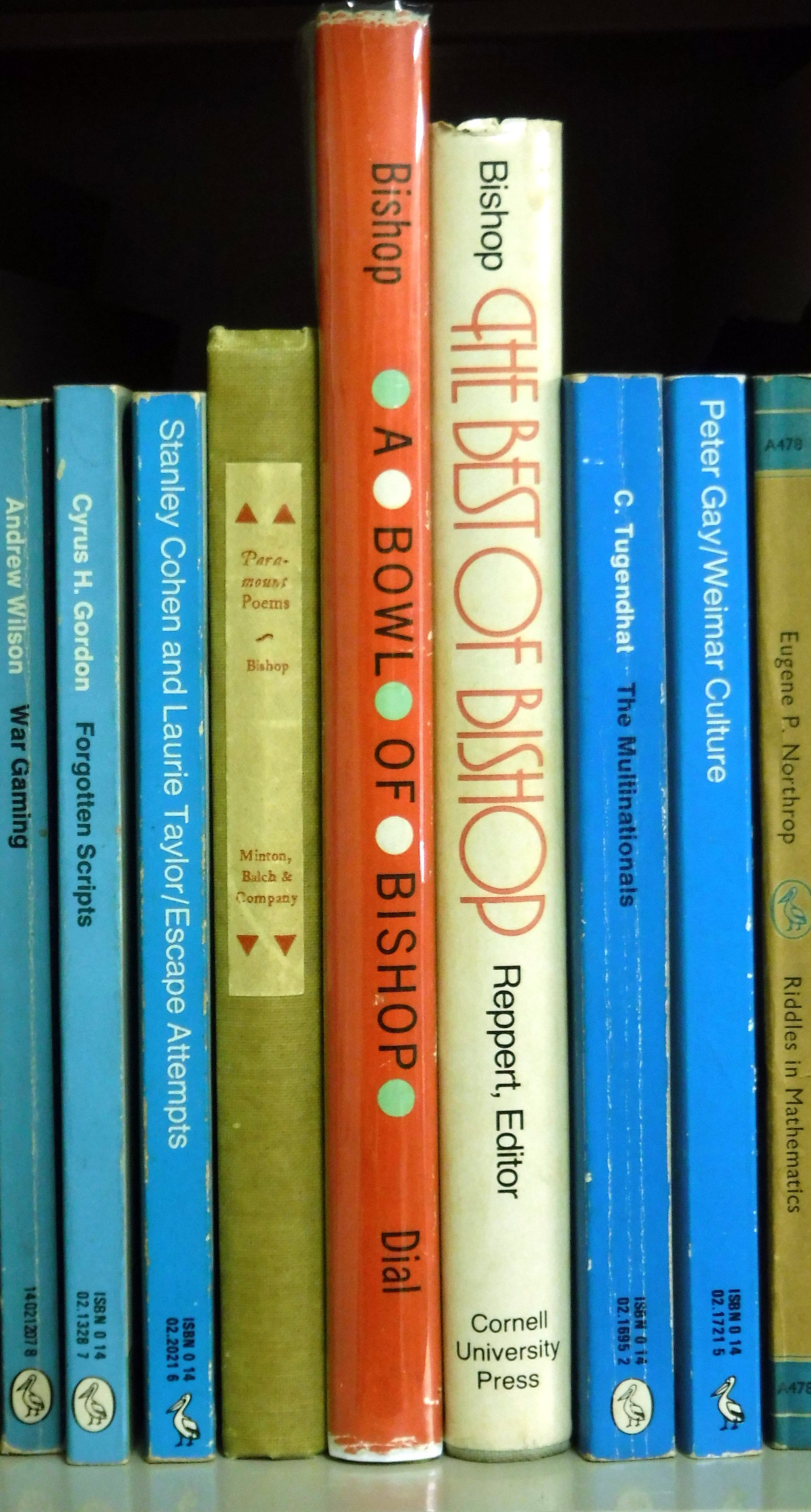 Three poetry collections by Morris Bishop (flanked by irrelevant Pelicans)